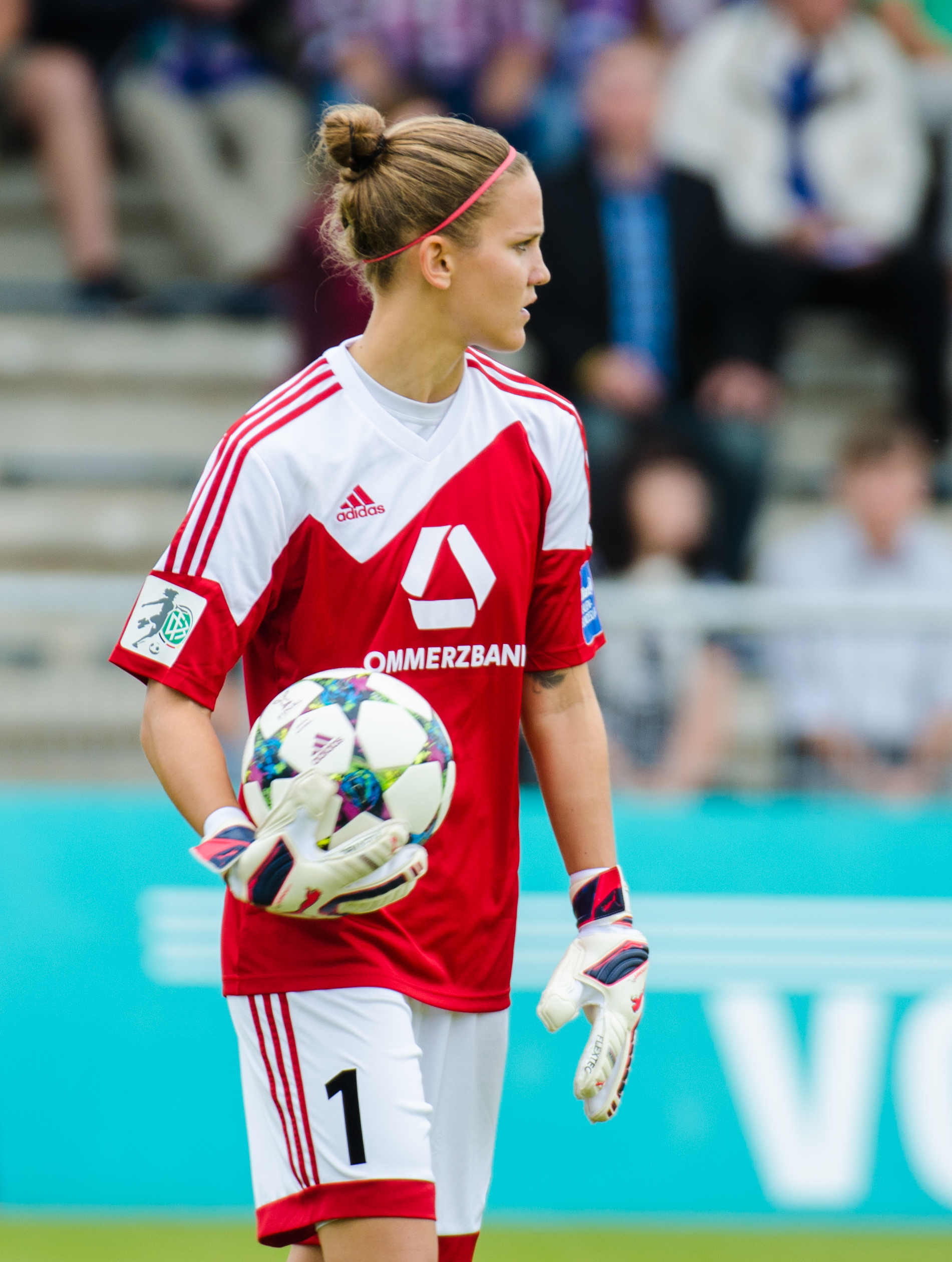 Match of the German Women's Football Bundesliga between 1.FFC Frankfurt and 1. FFC Turbine Potsdam, 2015-09-13